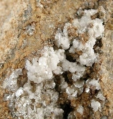 Dickite Locality: Magmont Mine, Bixby, Viburnum Trend District, Iron County, Missouri, USA (Locality at ) Size: 7.0 x 4.5 x 4.2 cm. Nestled in a vug are pearlescent, disc-shaped crystals of white dickite, to .2 cm across. This is a rare member of the kaolinite-serpentite group. In fact, it is basically crystallized clay, if you want to look at it on a basic level. Very interesting and unusual material and these are fine crystals from an old locale.